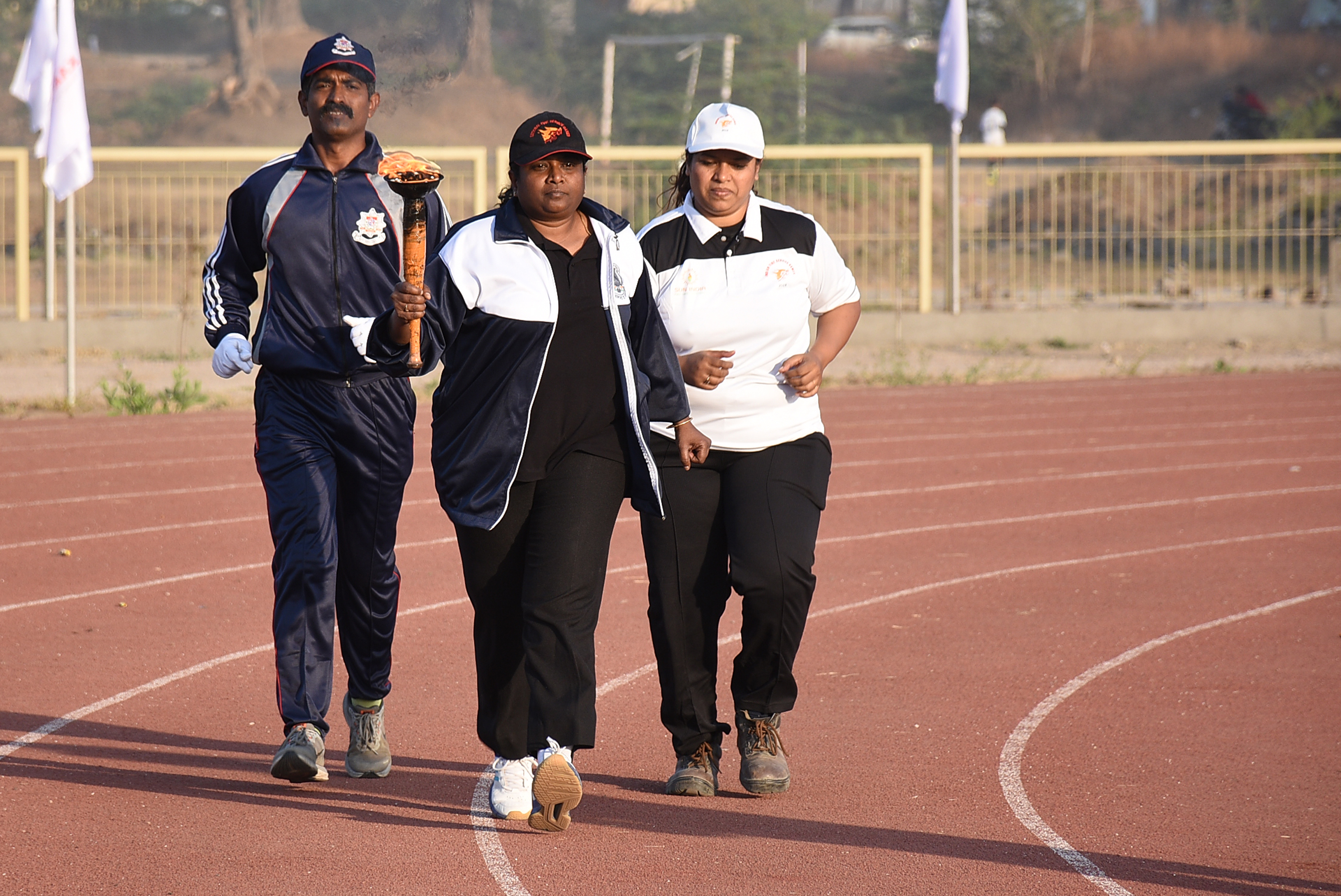 National Fire Games-2018